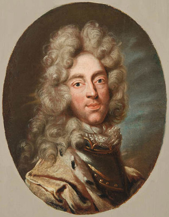 Johann Wilhelm von Sachsen-Marksuhl, seit 1671... [1]